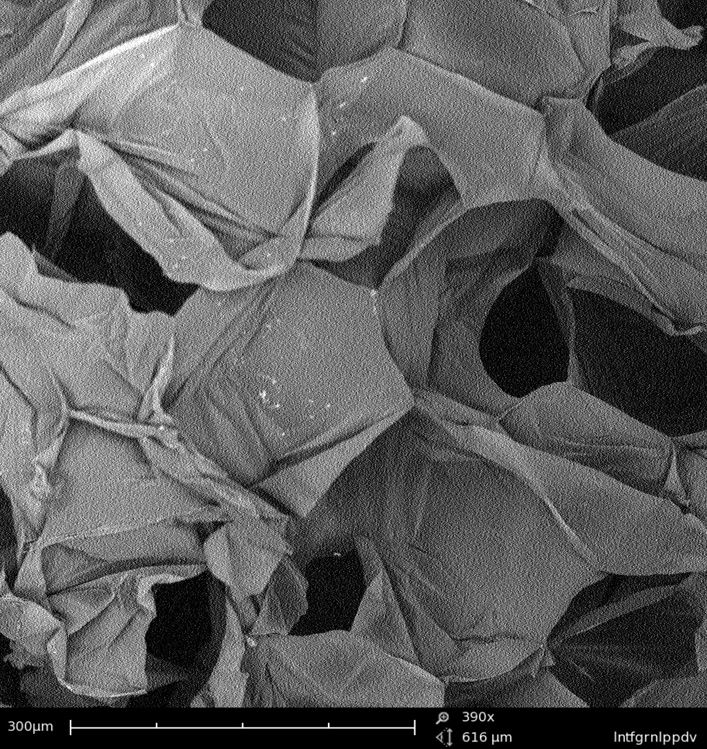 The inner structure of a styrofoam packing peanut, magnified 390x on an SEM